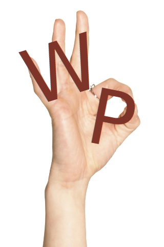 Usage of okay hand for white power